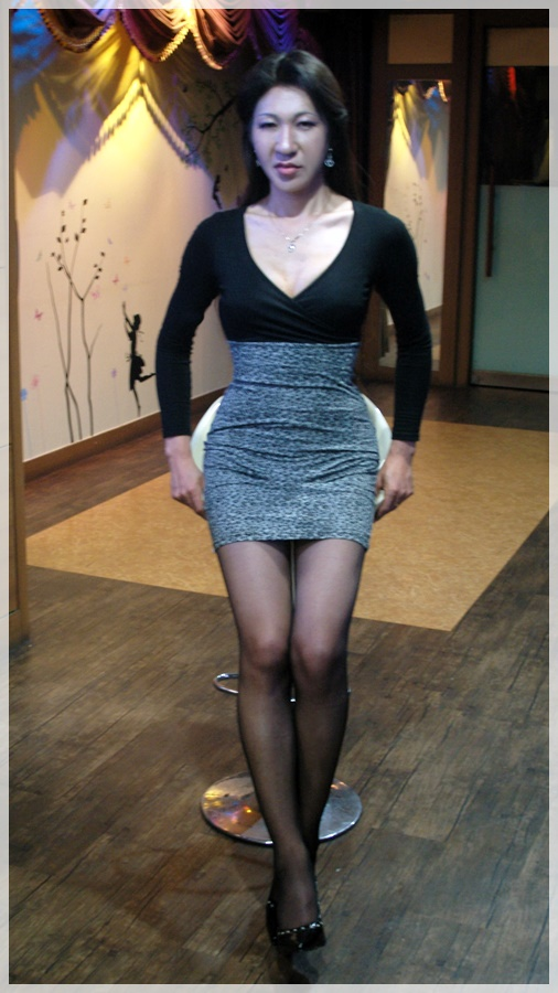 Crossdresser-YeoJain